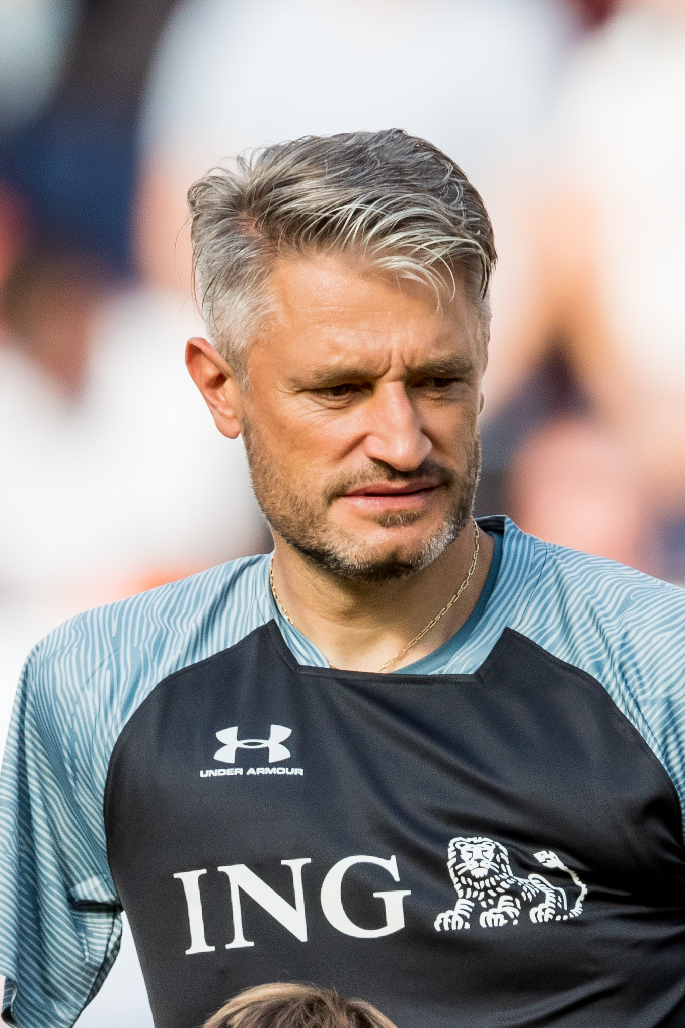 Christian Heintz during Champions for Charity at BayArena, Leverkusen, Nordrhein-Westfalen, Germany on 2019-07-21, Photo: Sven Mandel